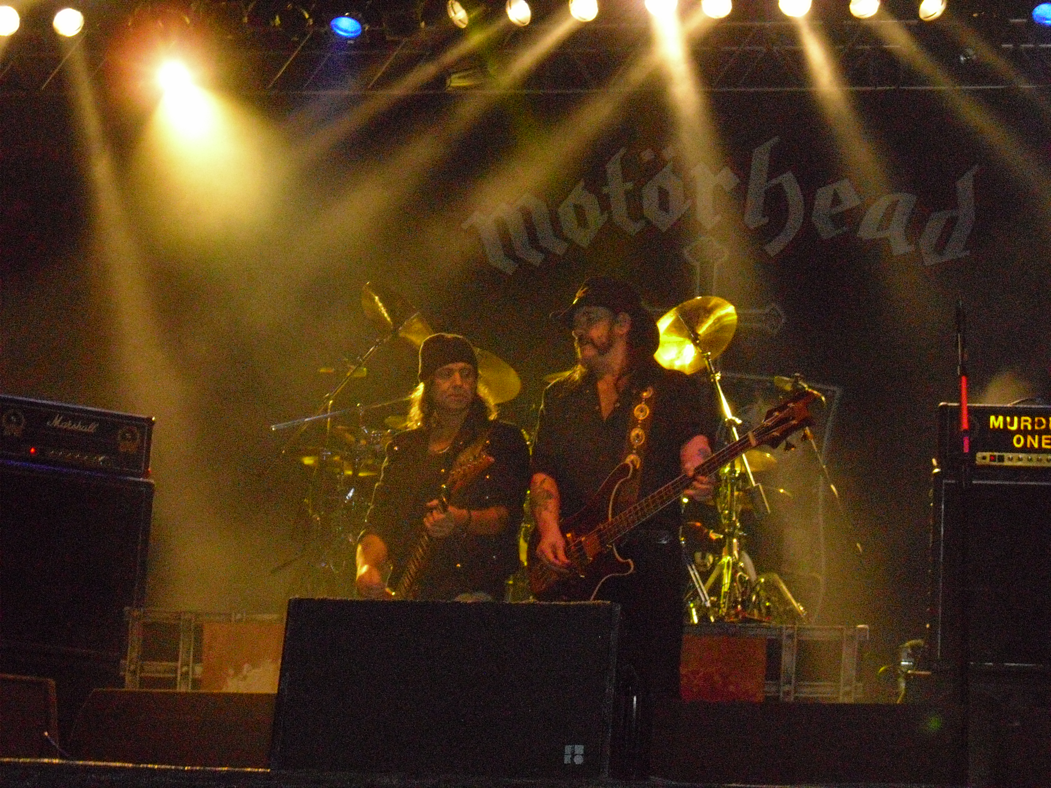 Motörhead performing live at Norway Rock Festival in July 2010